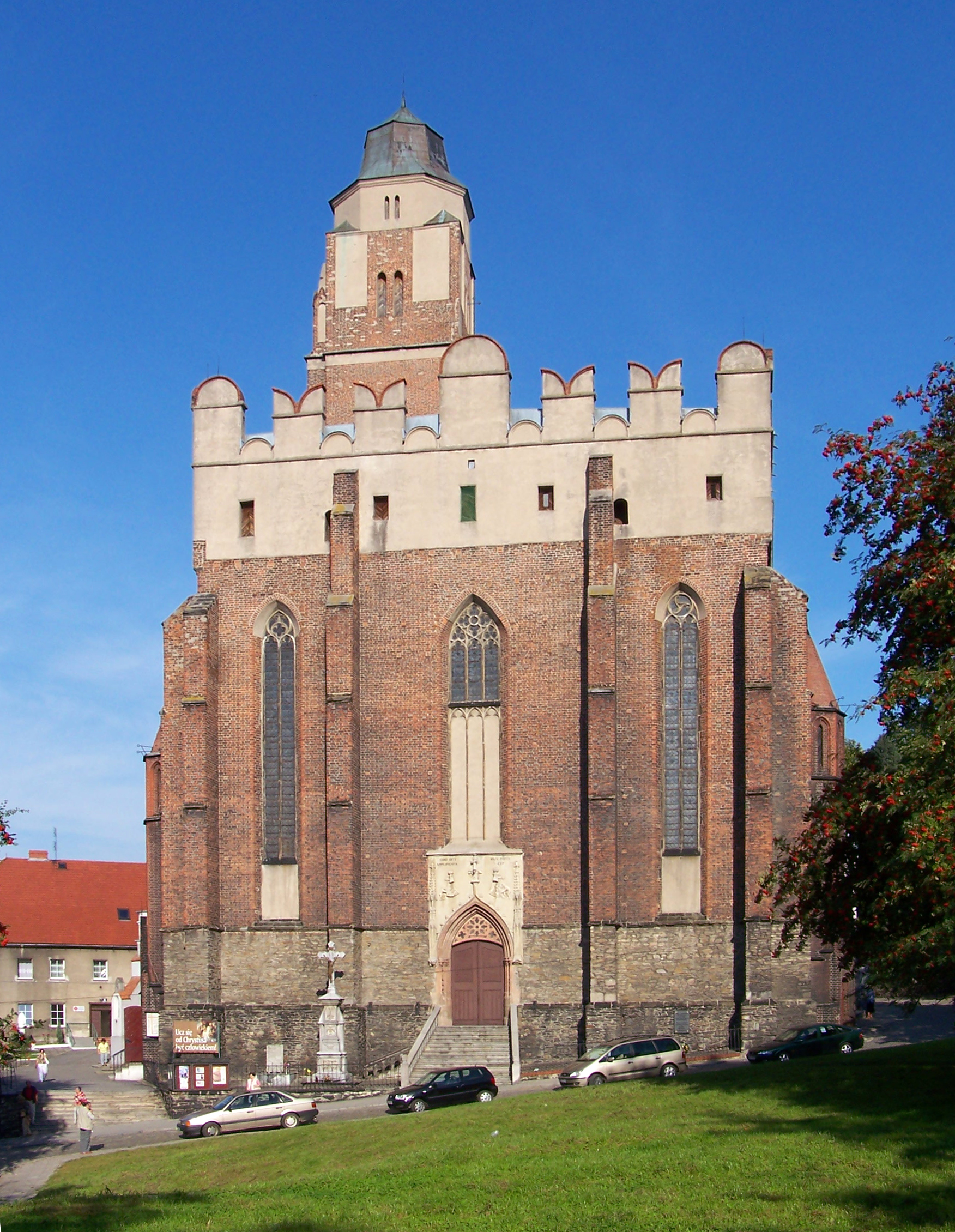 Gothic church of St. John the Apostle in Paczków (Lower Silesia, Poland).